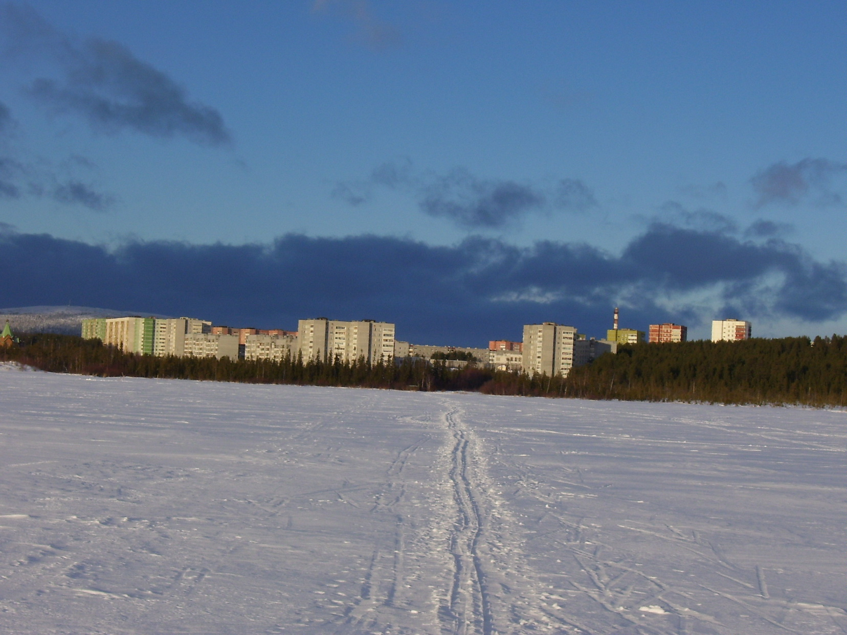 Polyarnye Zori and Lake Pinozero